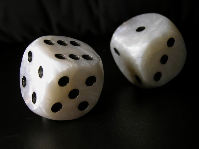 A pair of dice